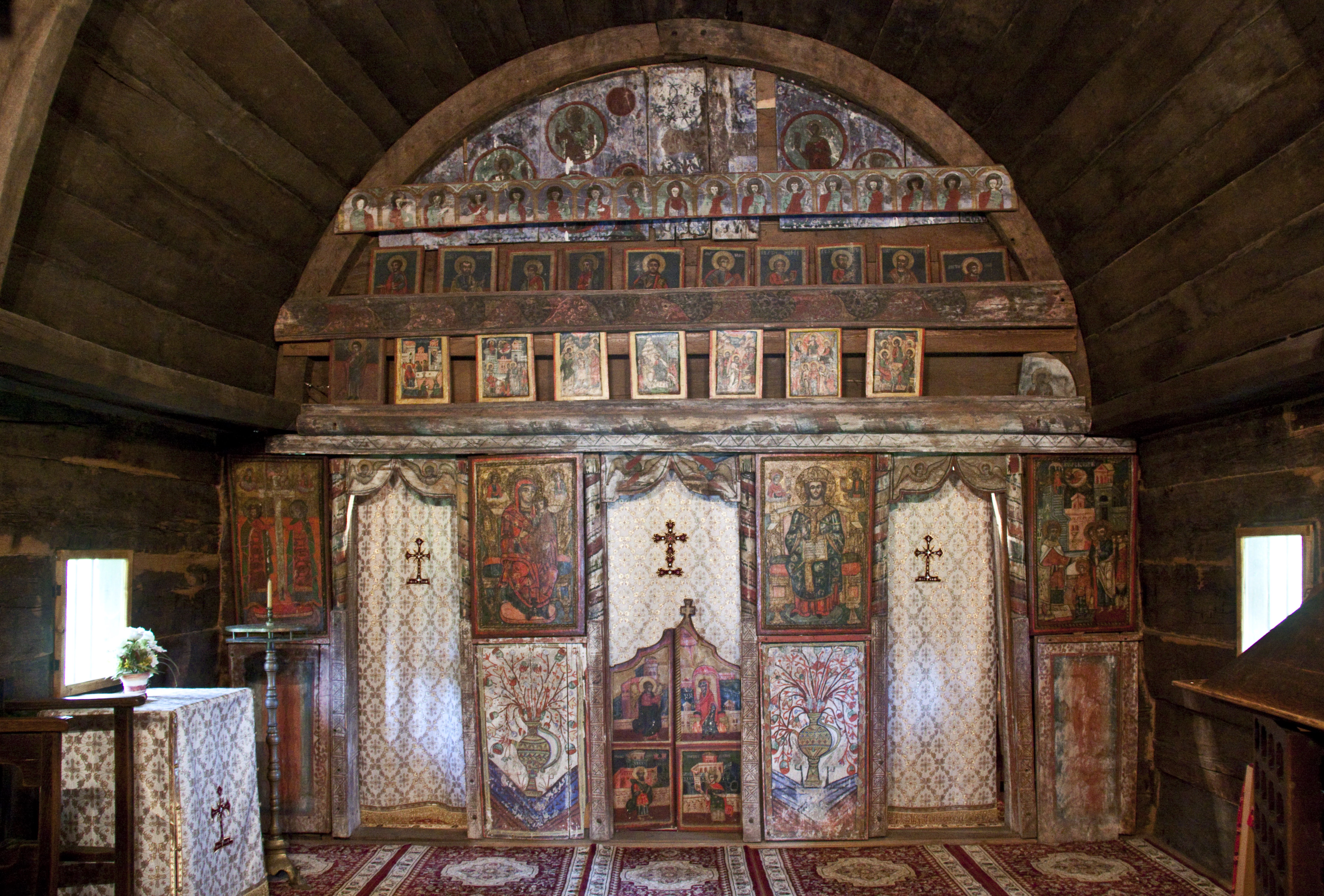 Palanga, Vâlcea county, Romania: the wooden church moved in Curtea de Argeş.